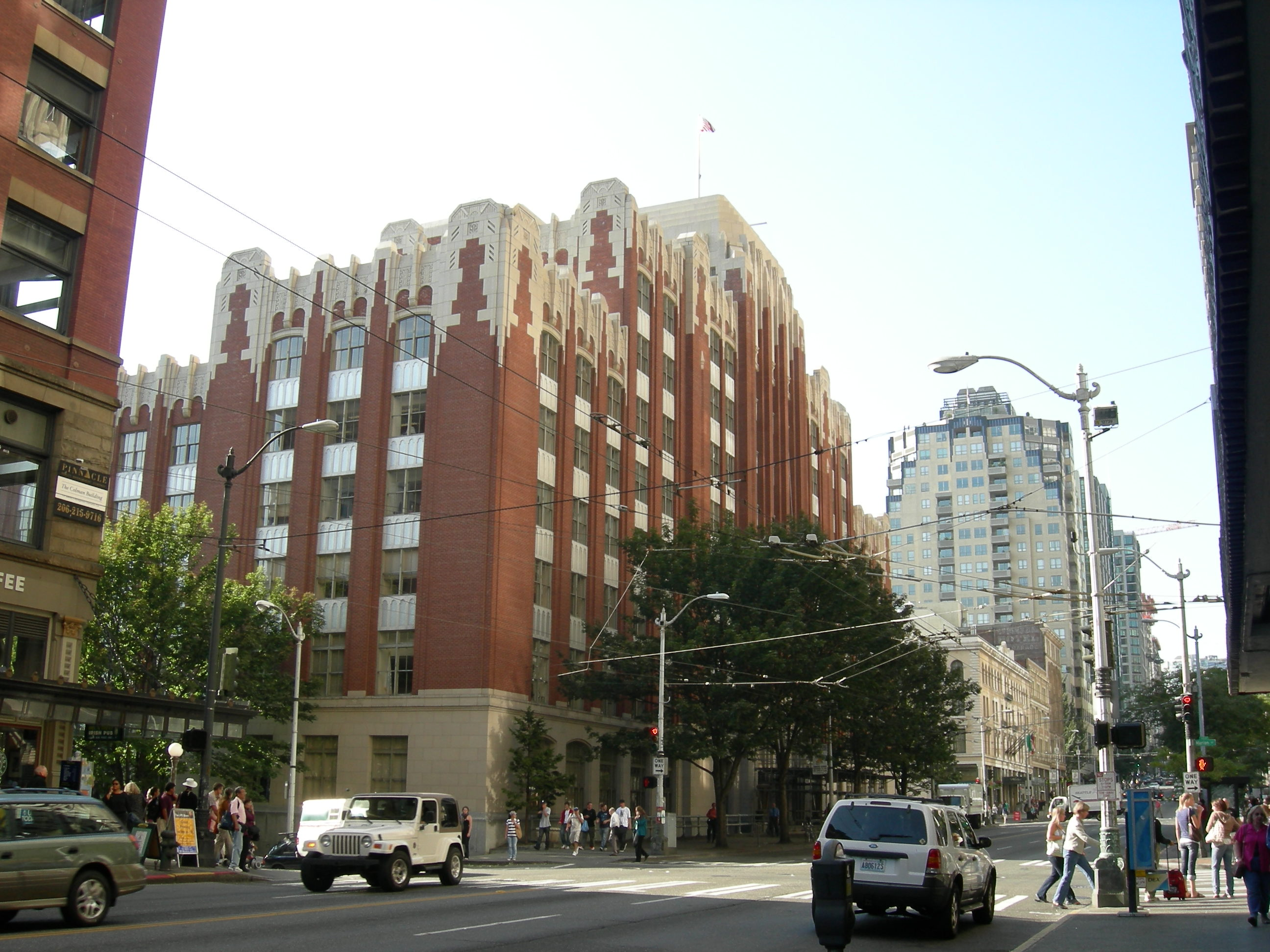 The "old" Federal Building (also known as Federal Office Building), 909 First Avenue, Seattle, Washington, USA, designed by James Wetmore. The building is listed on the National Register of Historic Places, ID #79003155. To its right are the Alexis Hotel (a congeries of older buildings, also on the National Register) and the neo-Deco Watermark Tower.